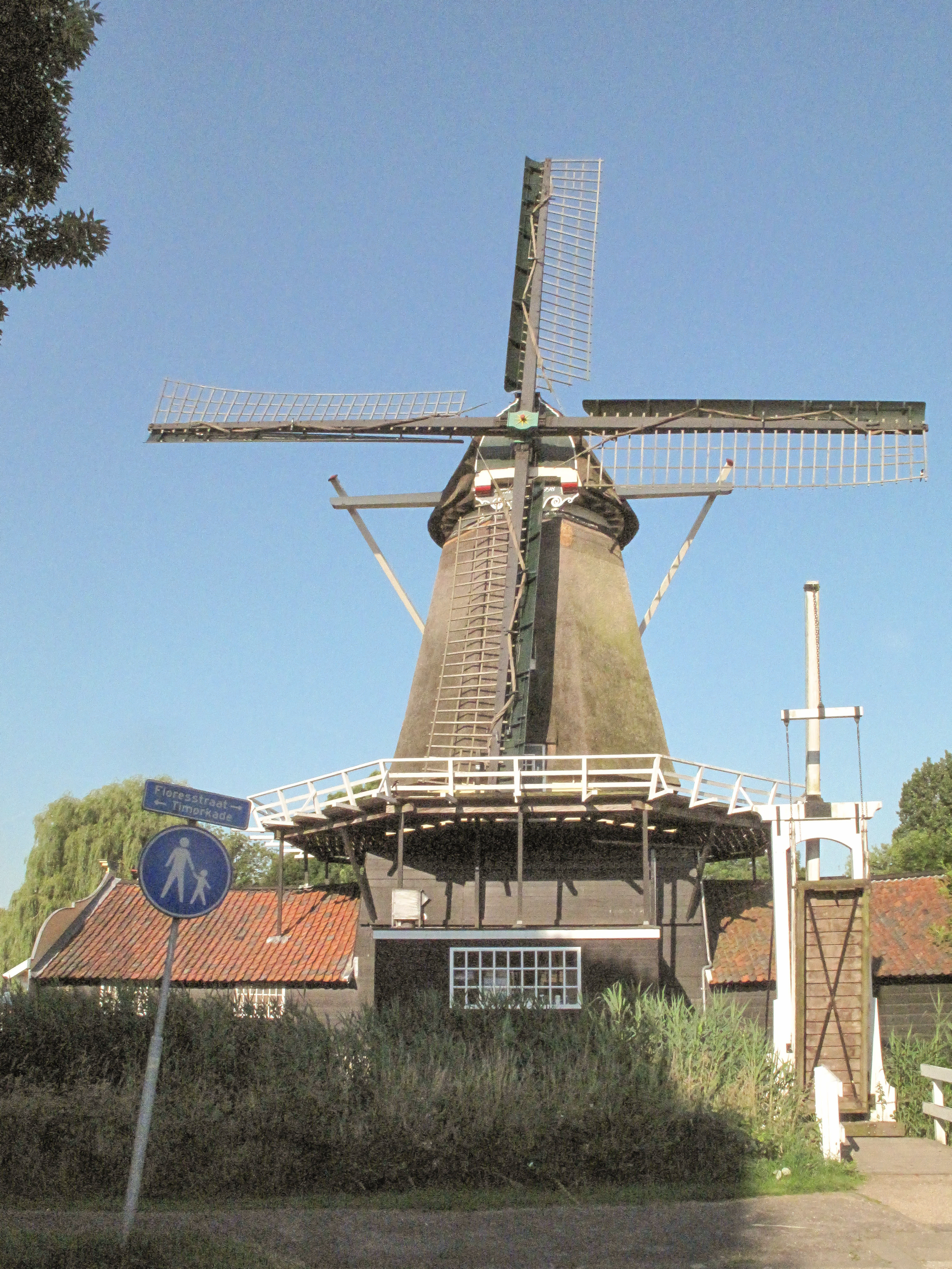 Utrecht-Lombok, windmill: zaagmolen De Ster